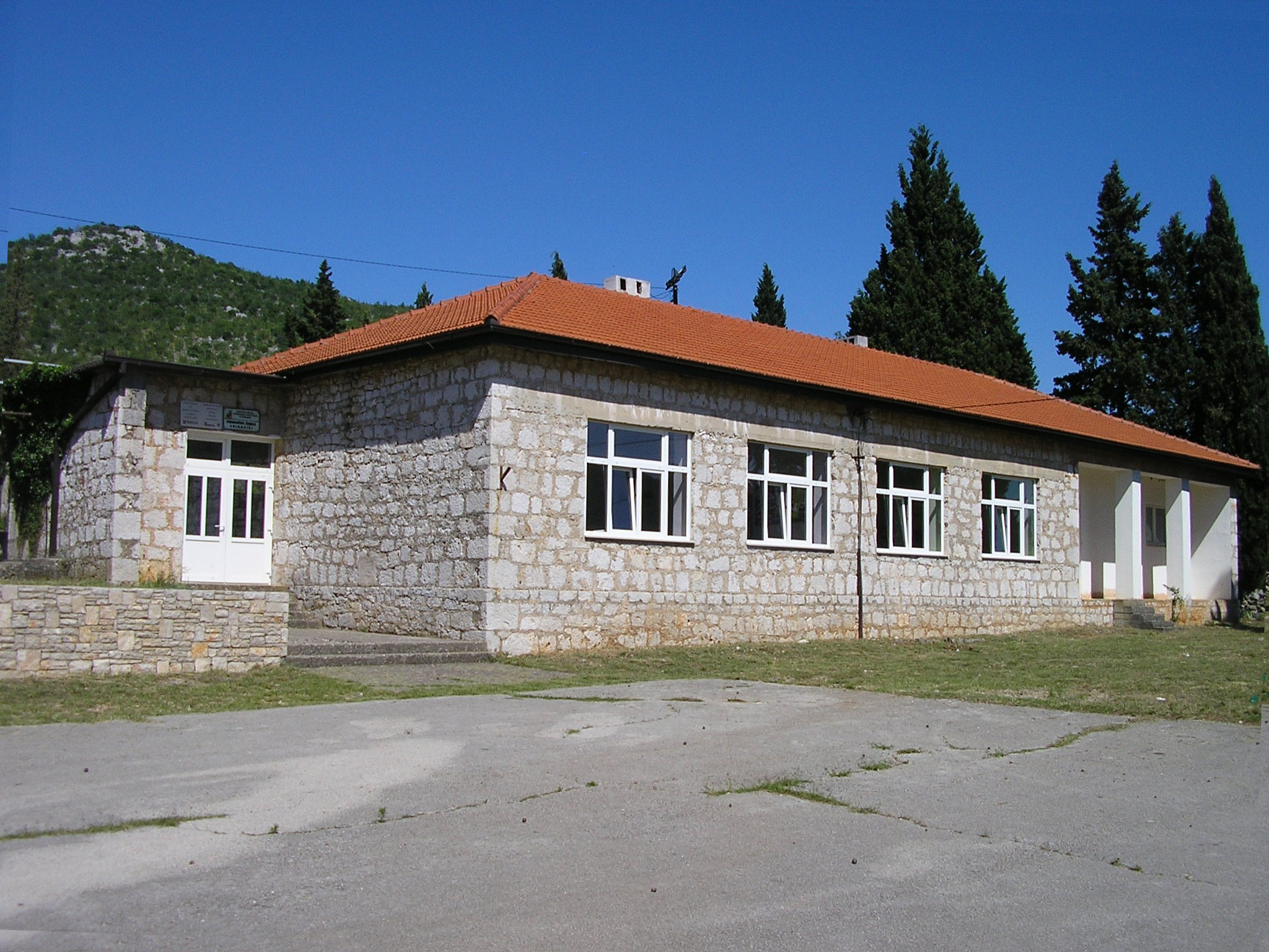 Elementary school in Zvirovići